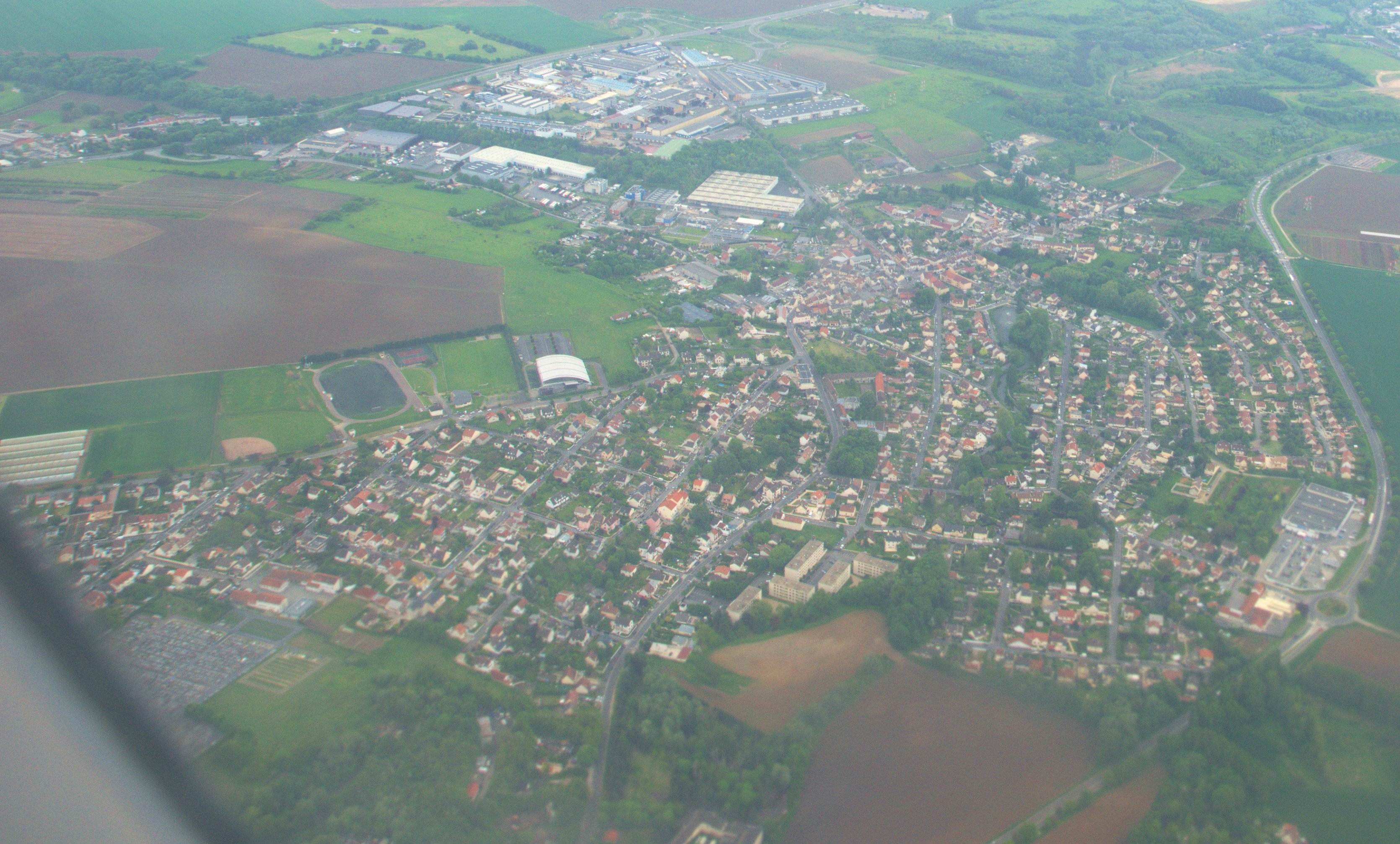 Plane view of Le Thillay